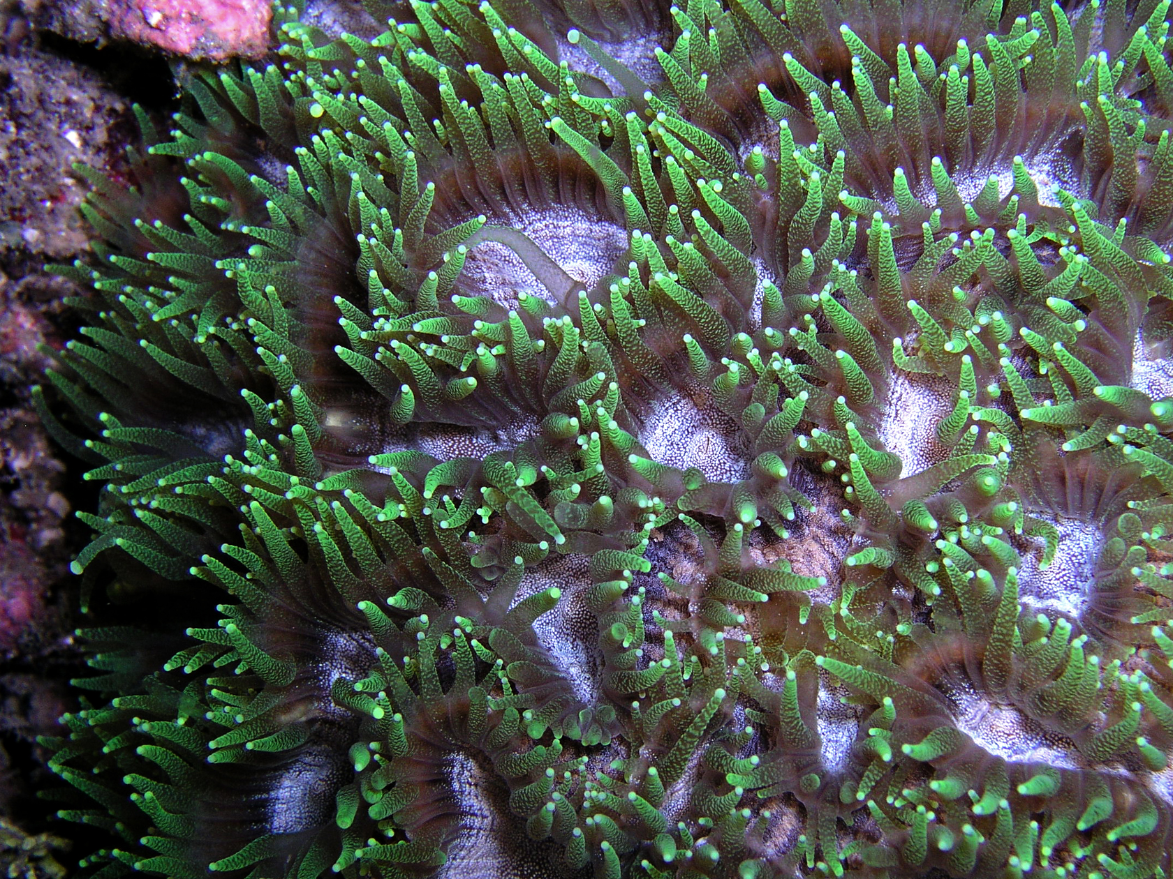 Favites flexuosa hard coral with extended polyps at night to feed.